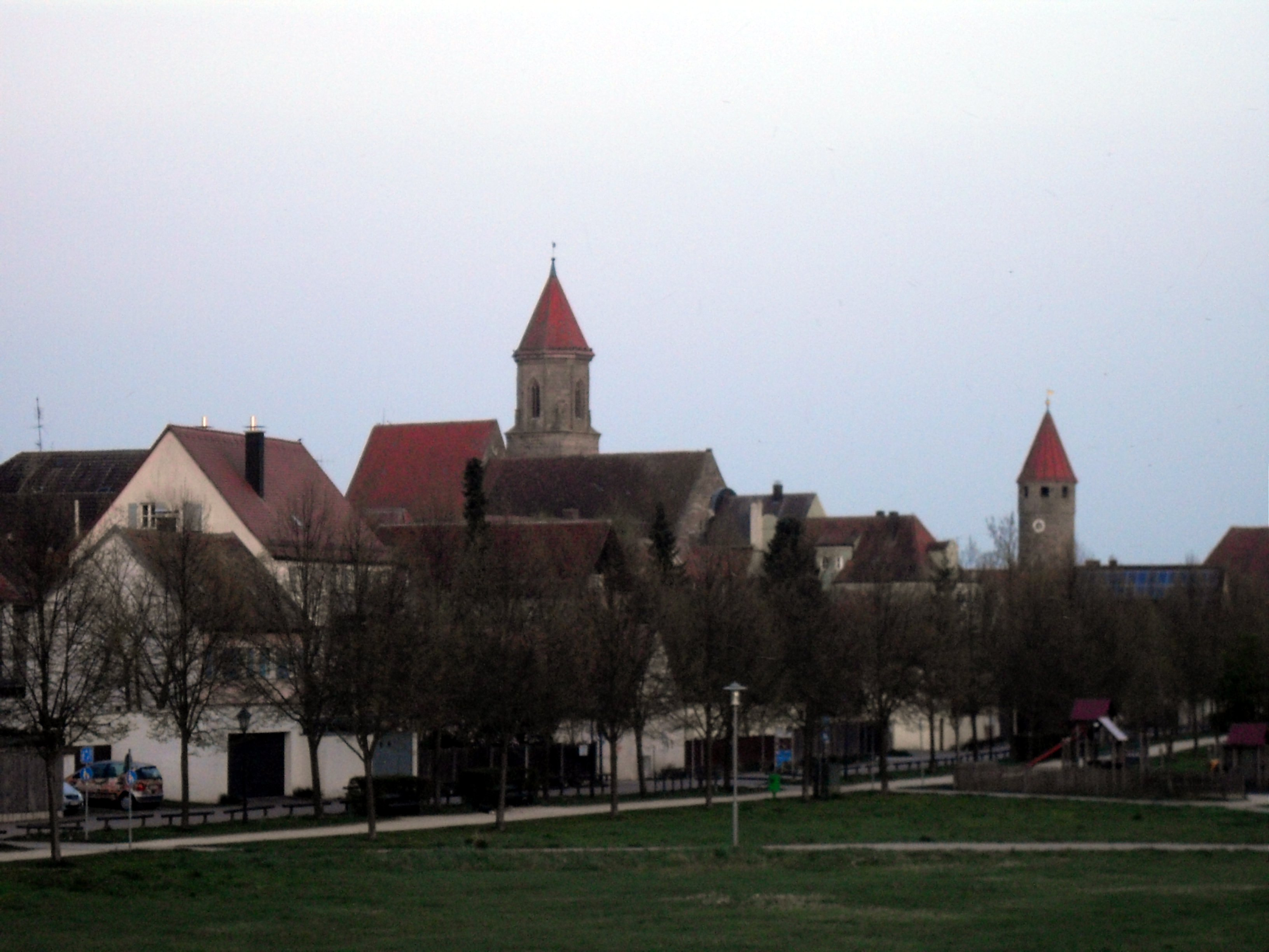 view of Gunzenhausen, Bavaria, Germany